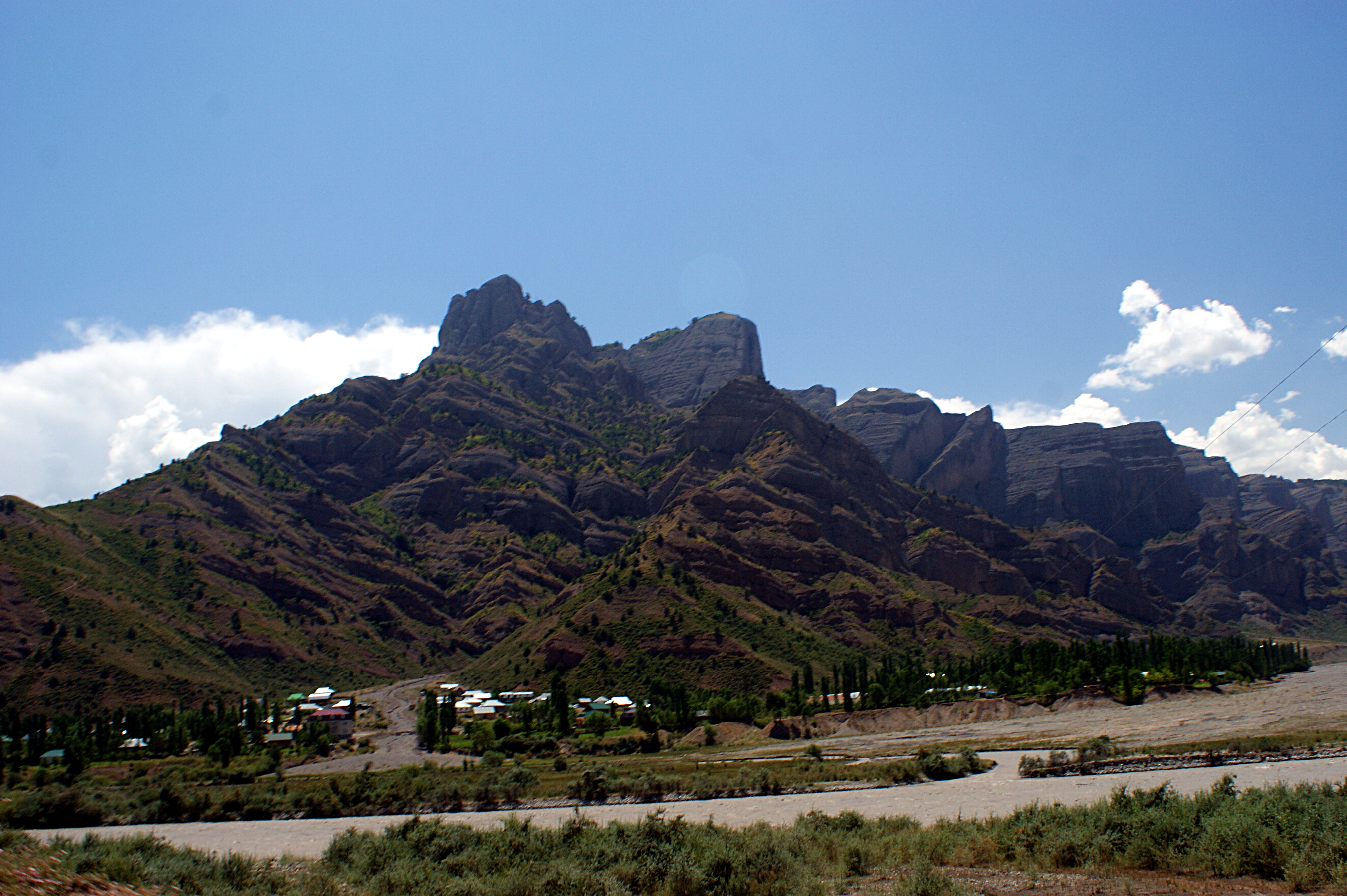 Tavildara (as seen from M41) Тоҷикӣ: Тавилдара